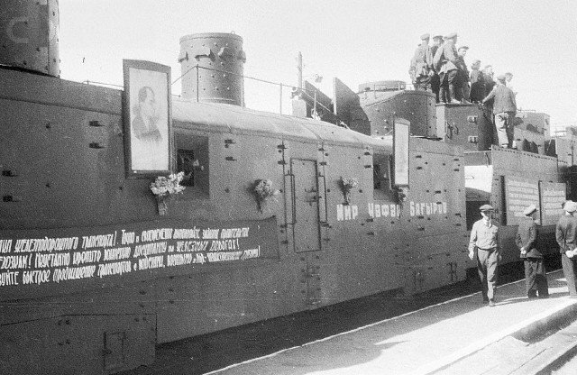 Bagirov train in Baku.